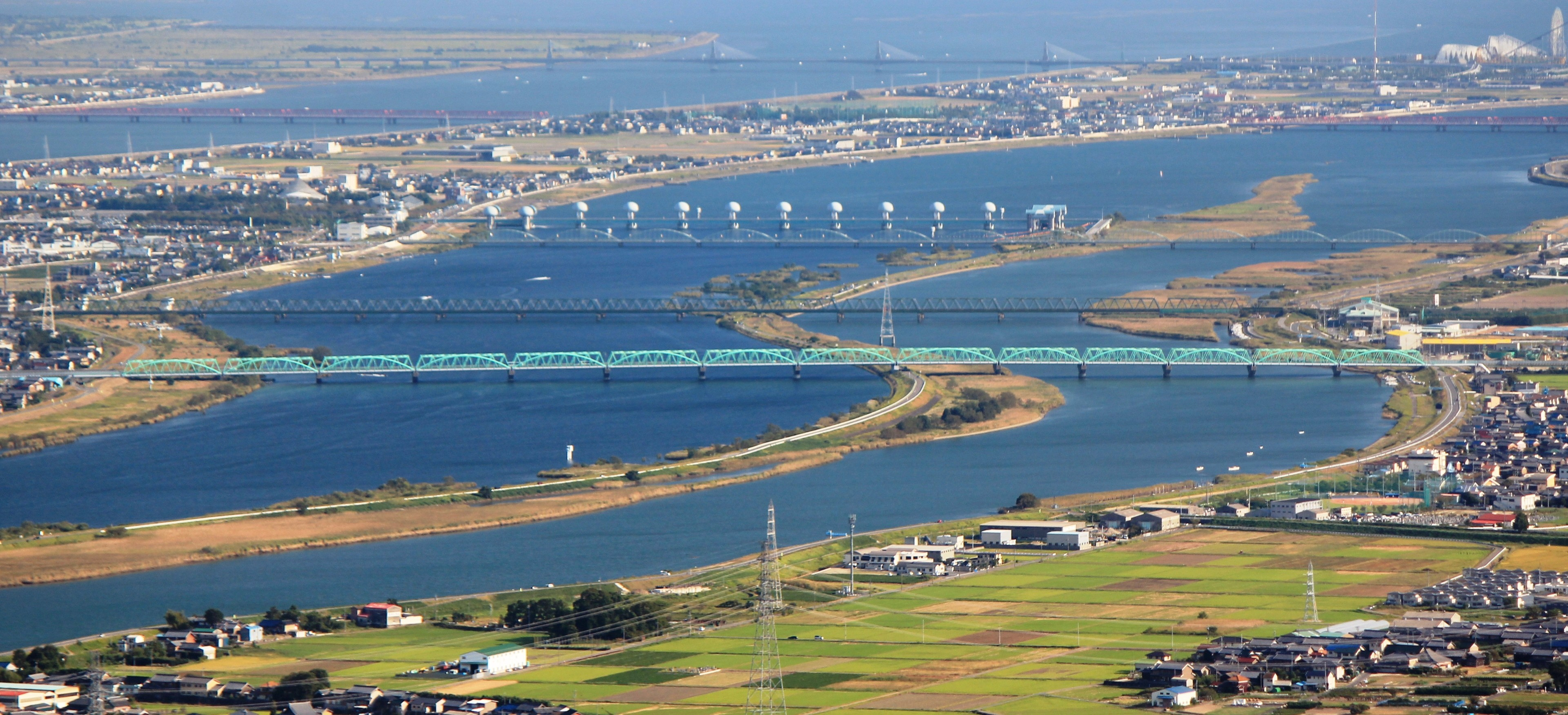 Bridges of Kiso Three Rivers, Ibinagara river Bridge (Ibi-nagaragawa-bashi) and others from Mount Tado, in Kuwana, Mie prefecture, Japan.